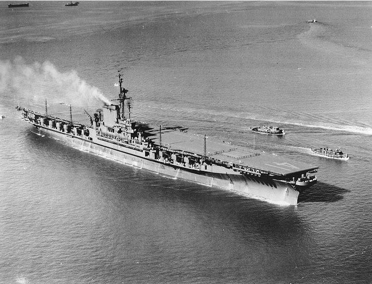 USS Midway (CVB-41) in Hampton Roads, Virginia, 10 September 1945.